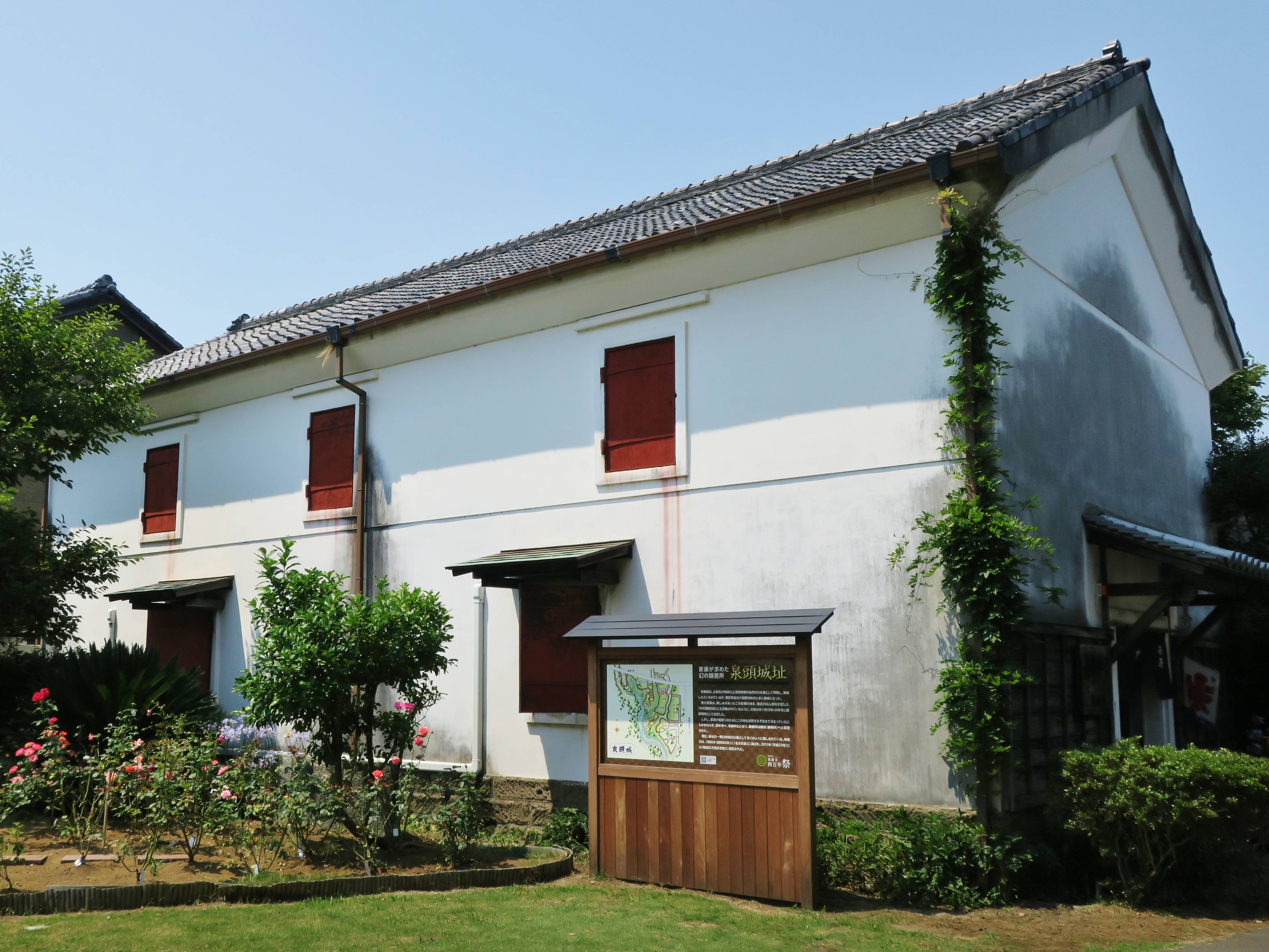 Coffee Shop Kura (Shimizu, Shizuoka).